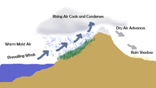 Image of a rain shadow.